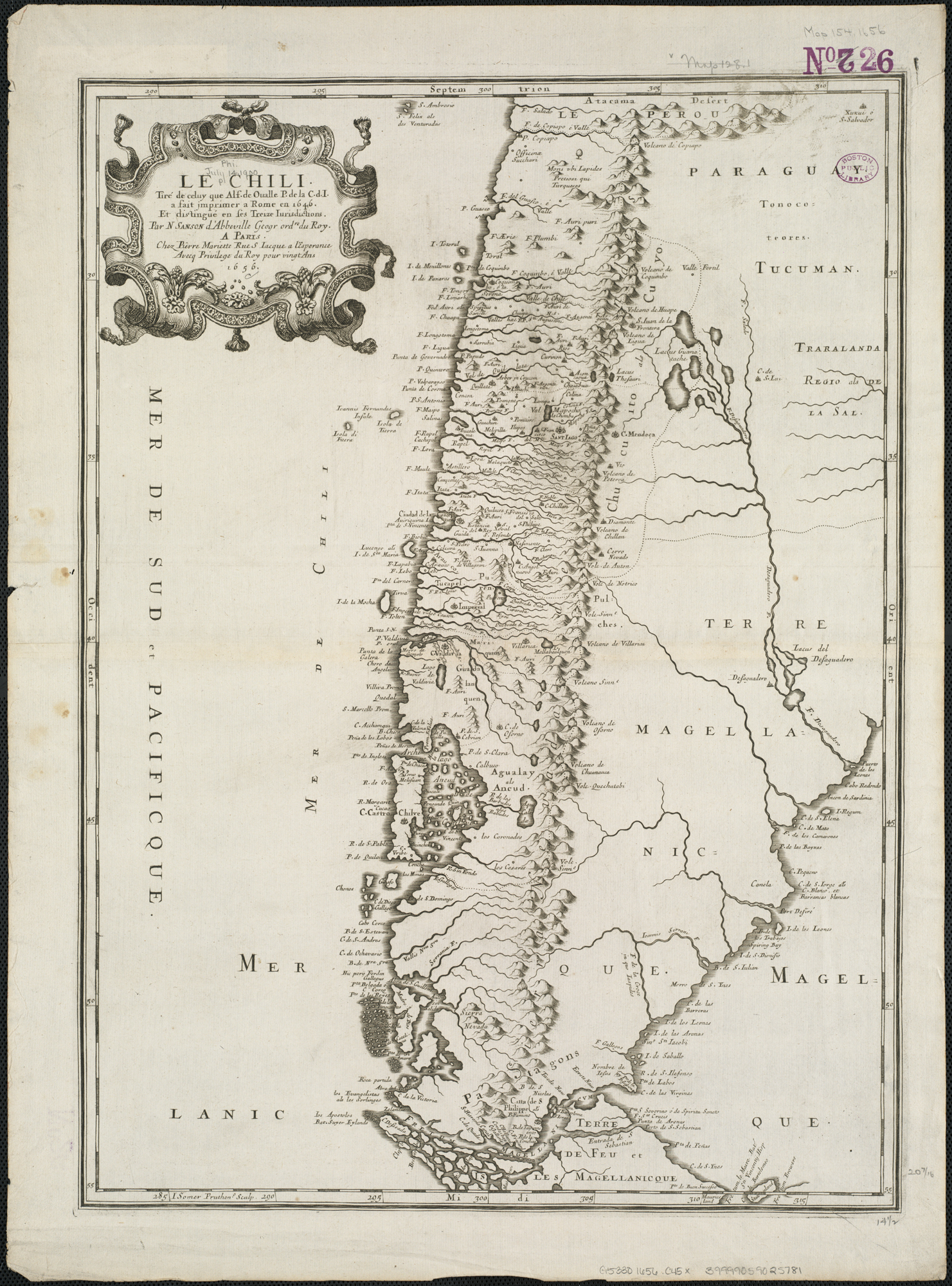 Le Chili this map at . Author: Sanson, Nicolas Publisher: Mariette, Pierre Date: 1656 Location: Chile Dimension 52x37cm Scale: ca. 1:6,400,000 Call Number: G5330 1656 .C45x